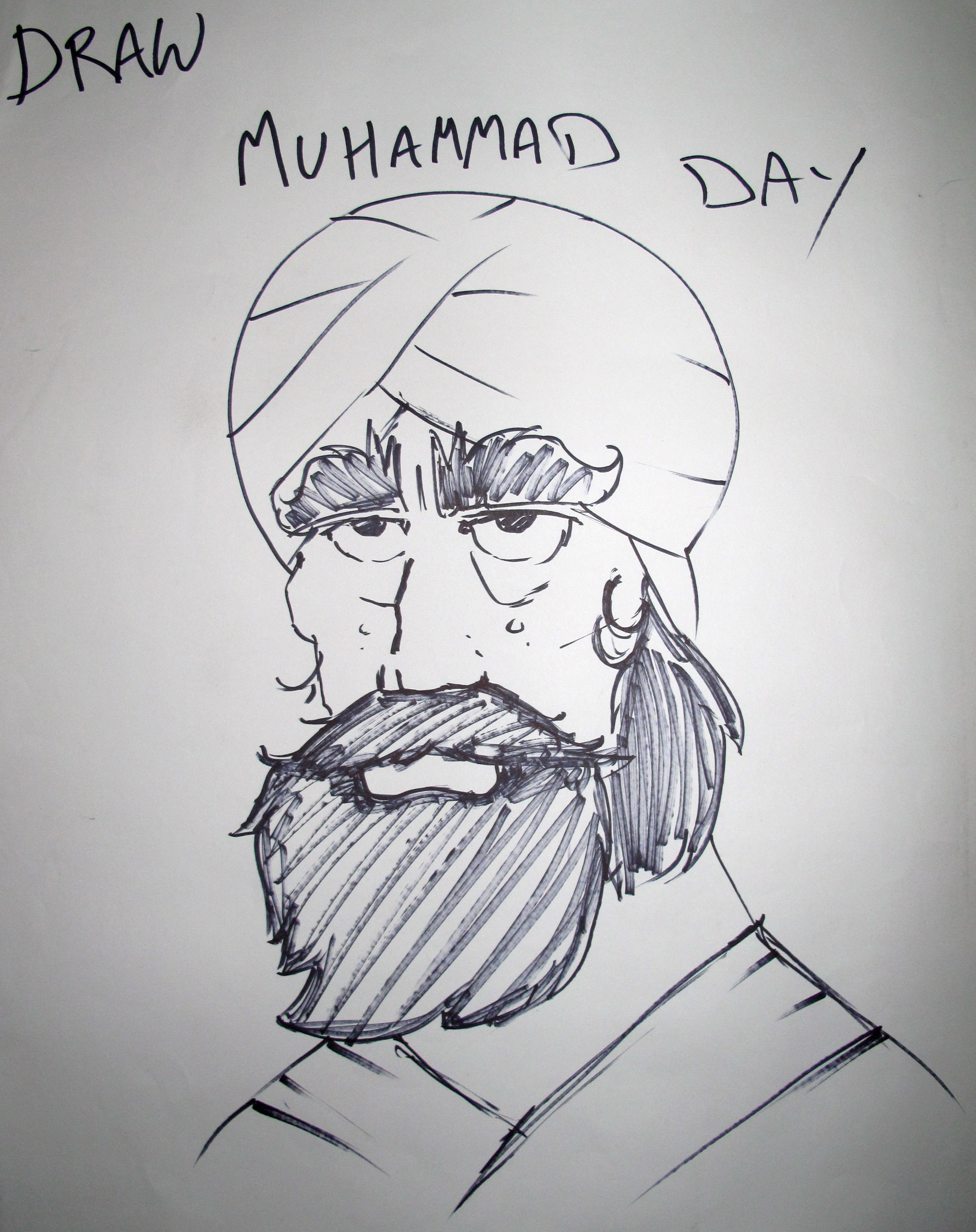 A depiction of Muhammad for "Draw Mohammad Day" by Jason Fisher